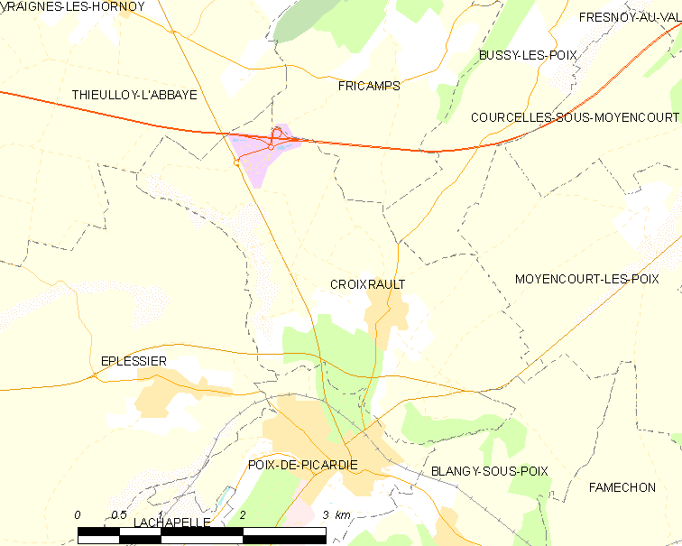 Map of French municipality Croixrault